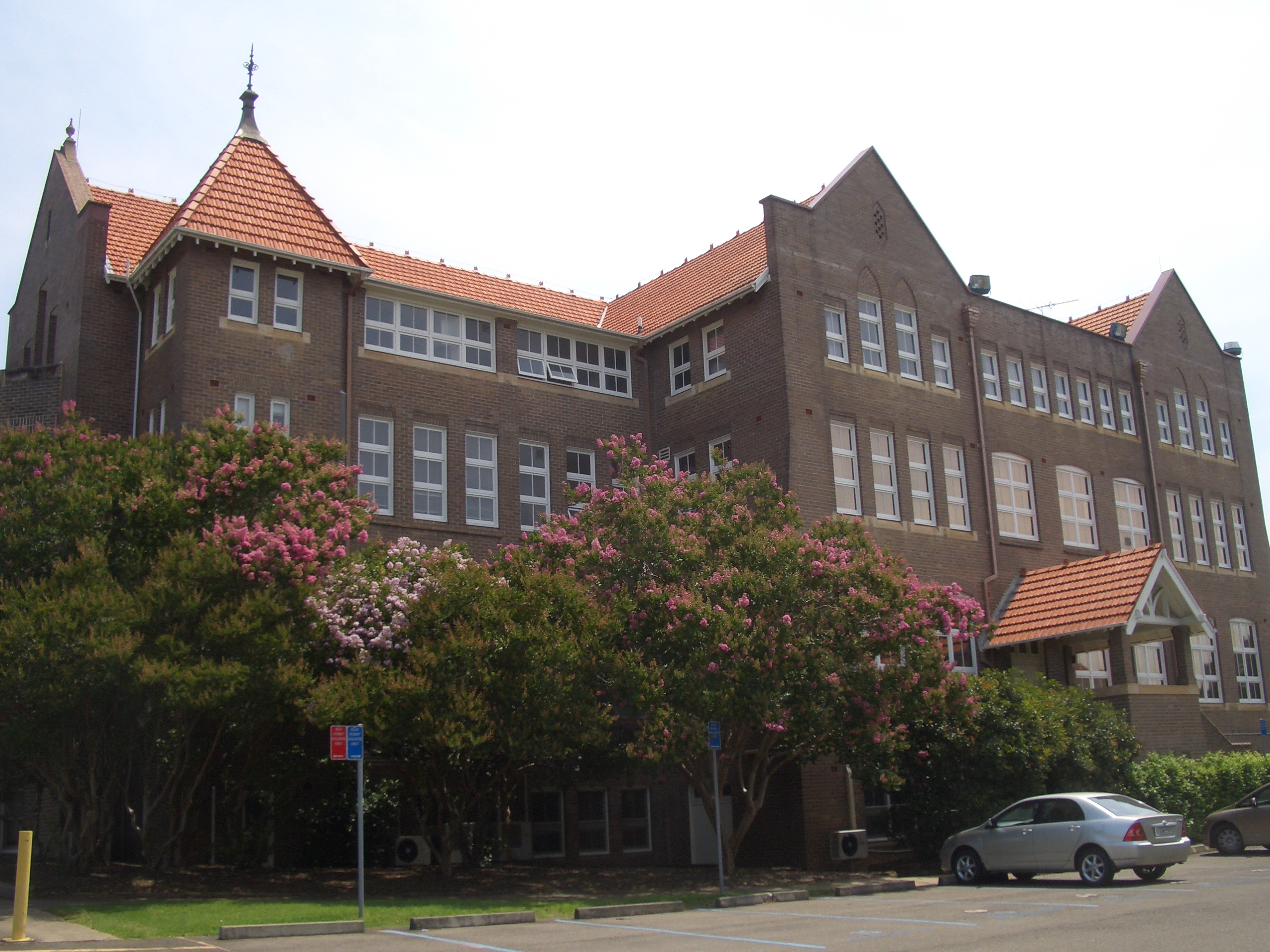 St Vincents, NSW Police College, Westmead Campus